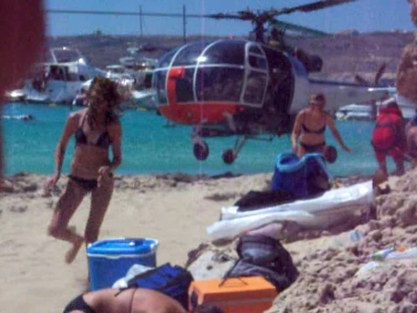 Kemmuna Rescue